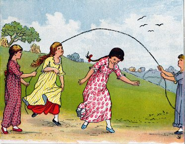 (Removed after reusableart request.)